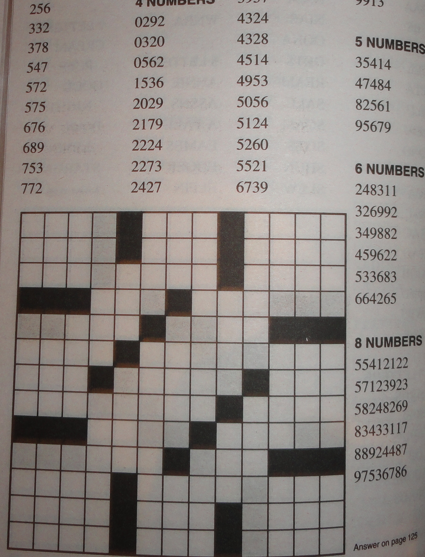 A variation of the Fill-In puzzle with numbers.